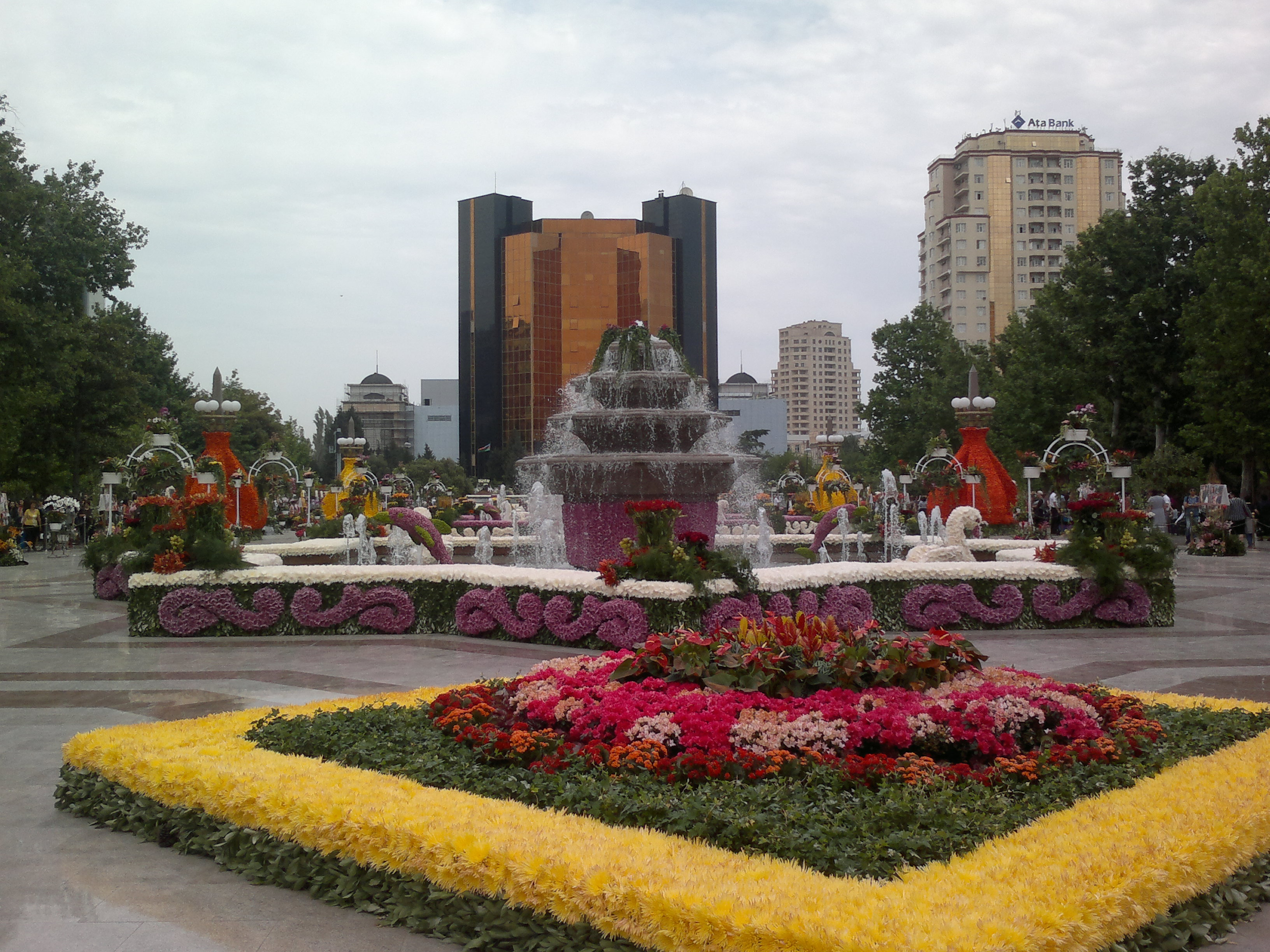 Baku, Azerbaijan. Park named after Heydar Aliyev during Flower holiday